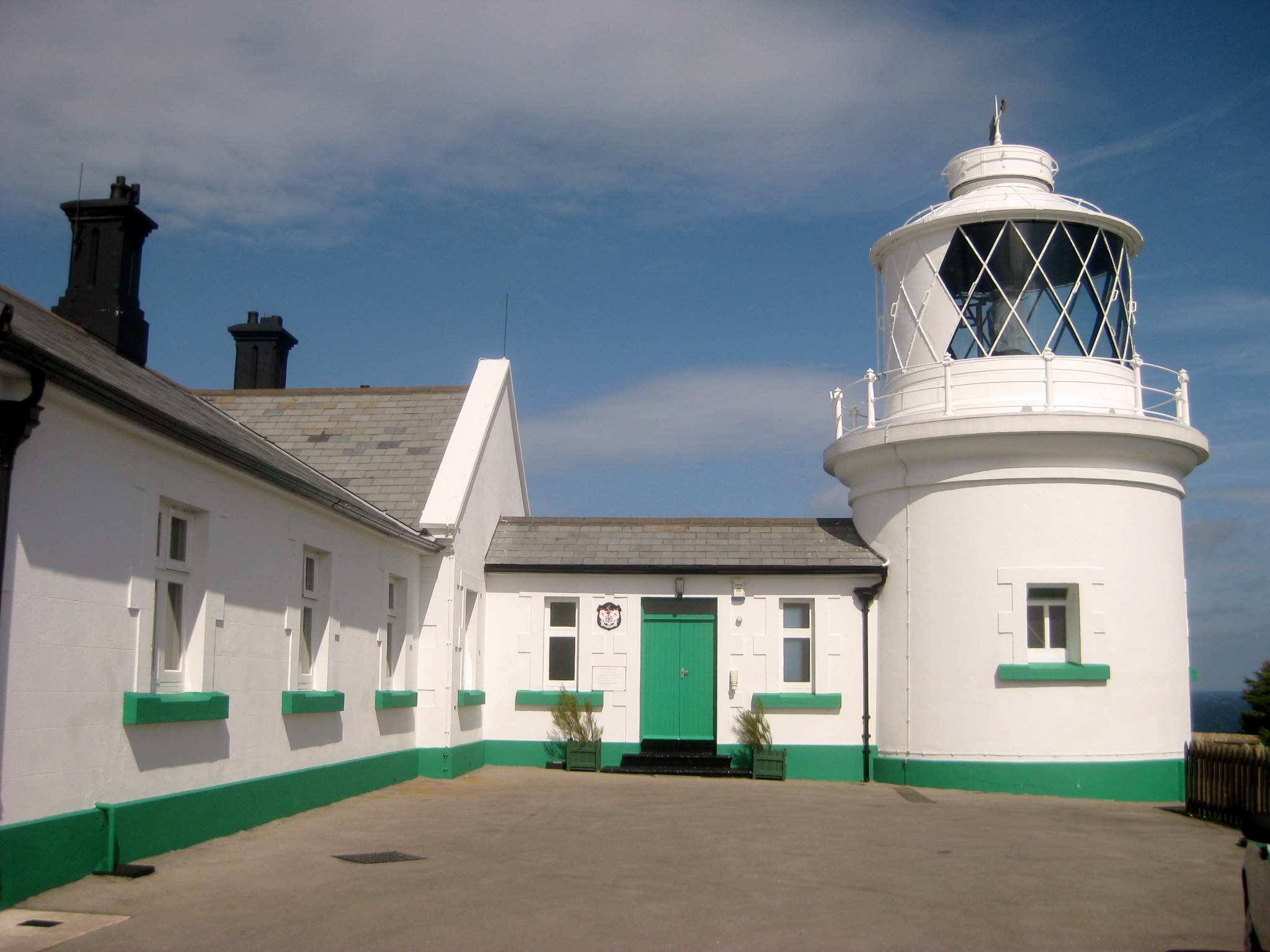 Anvil Point Lighthouse as seen from the gate